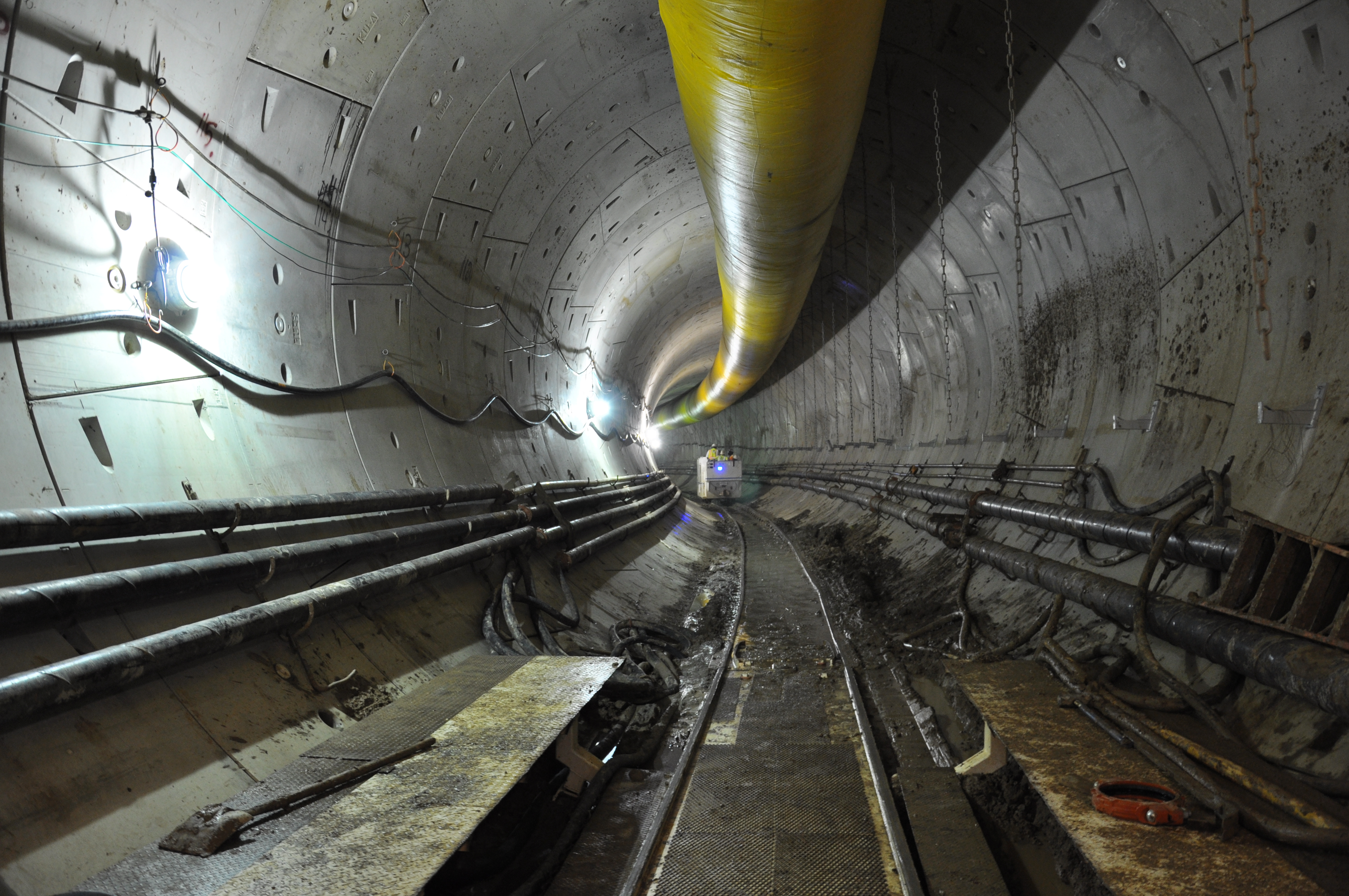 Construction workers check on progress inside a tunnel on a water infrastructure project in Washington, D.C.